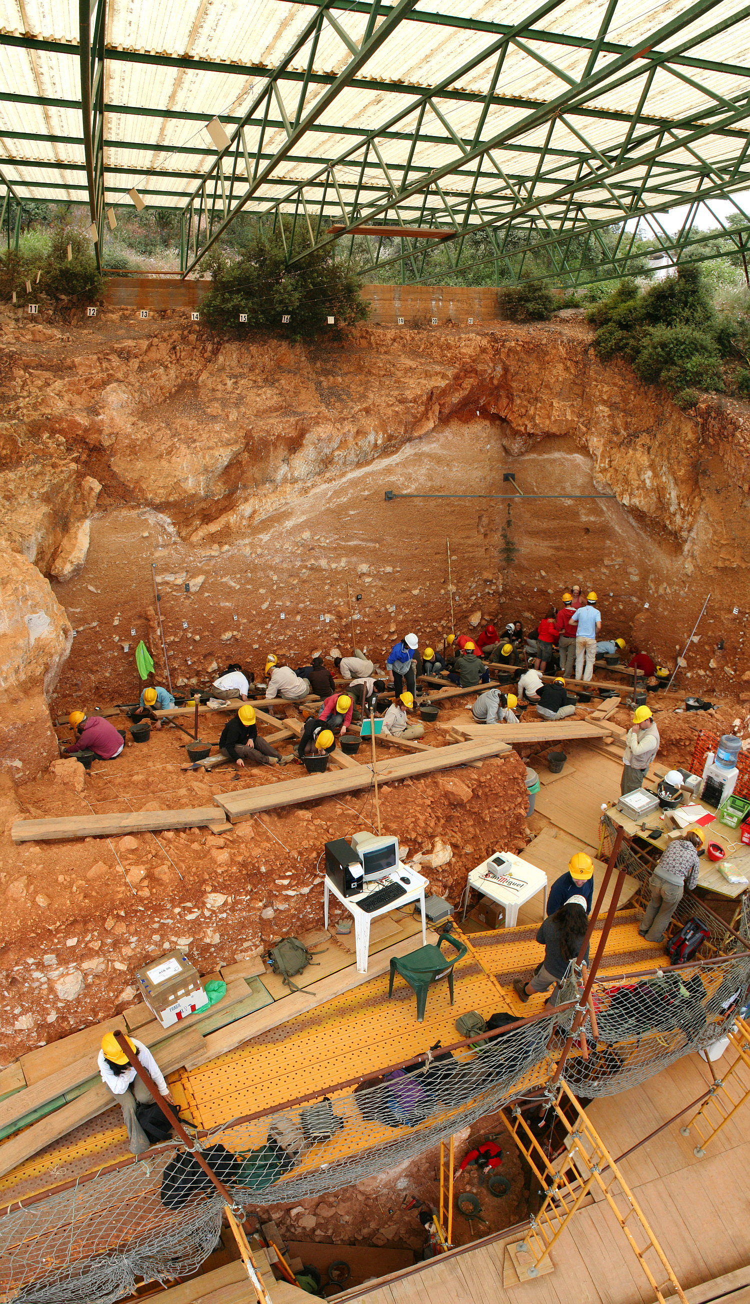 Excavations at the site of Gran Dolina, in Atapuerca (Spain), during 2008. Panoramic photography formed using 3 individual photographies with Hugin software. TD-10 archaeological level is being excavated where the most of the people are. It is a Homo heidelbergensis camp. Under the plank, we can observe a woman with red sweatshirt excavating TD-6 archaeological level, where were found the first remains of Homo antecessor.